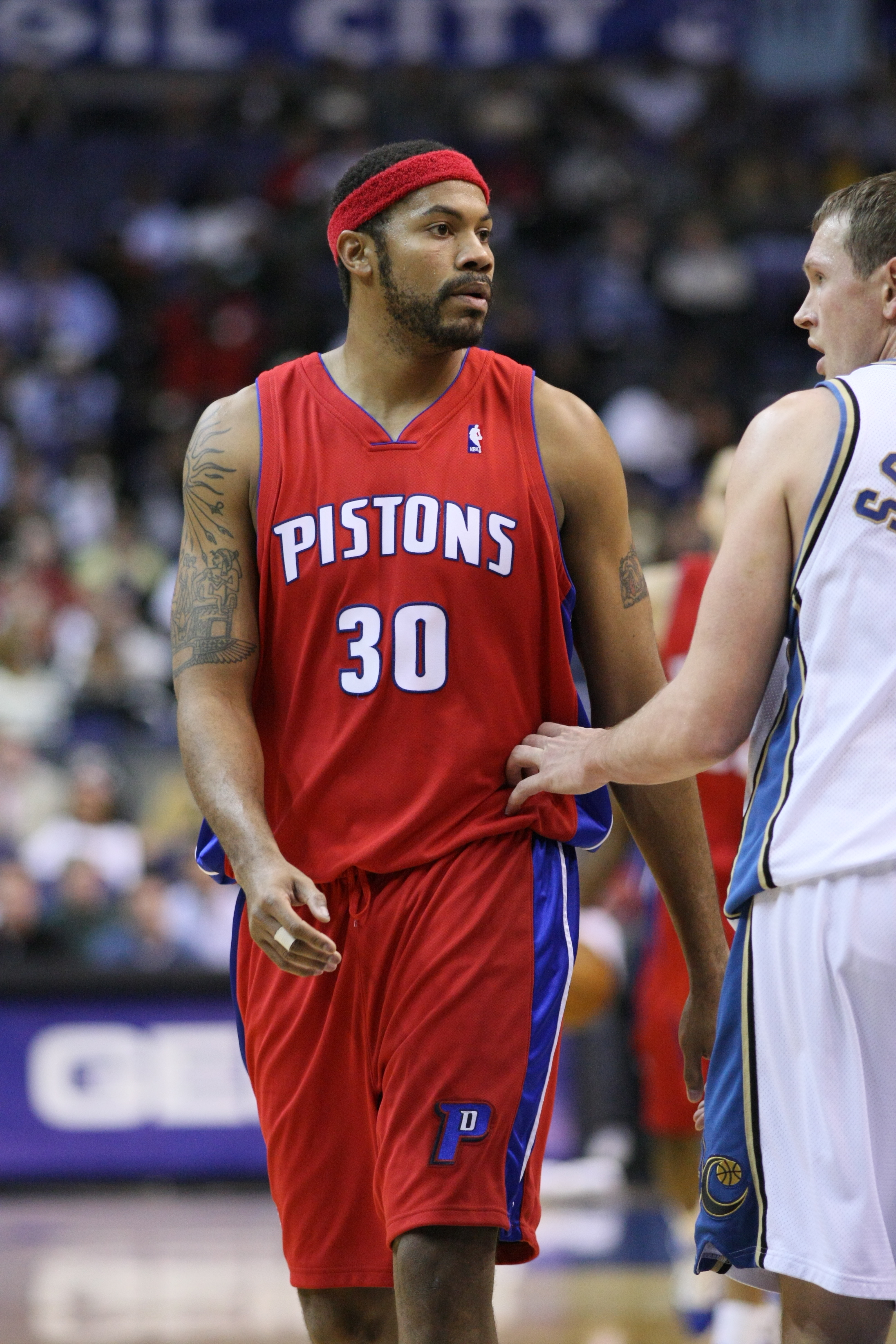 Rasheed Wallace